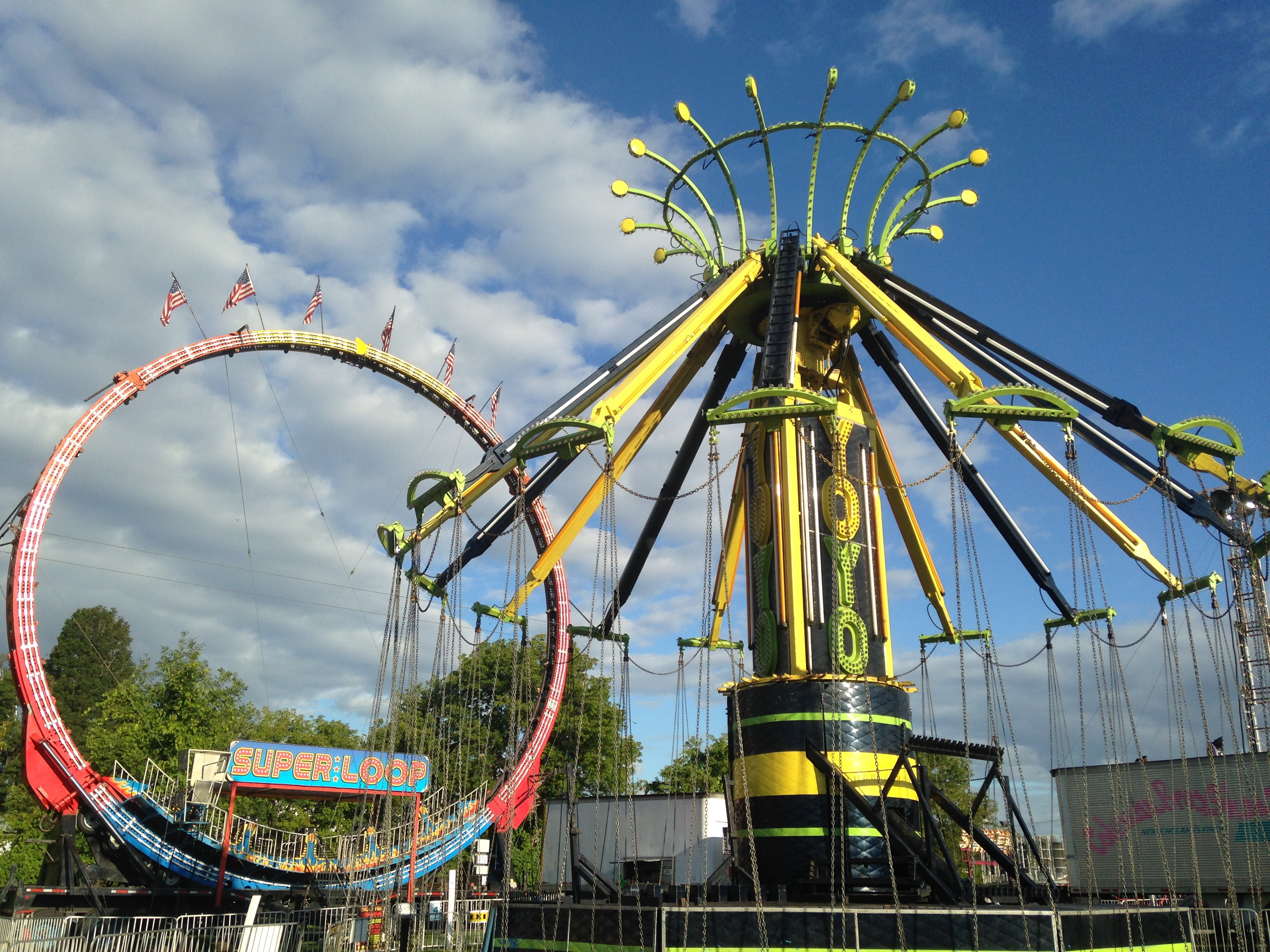 YoYo ride with Super Loop in background